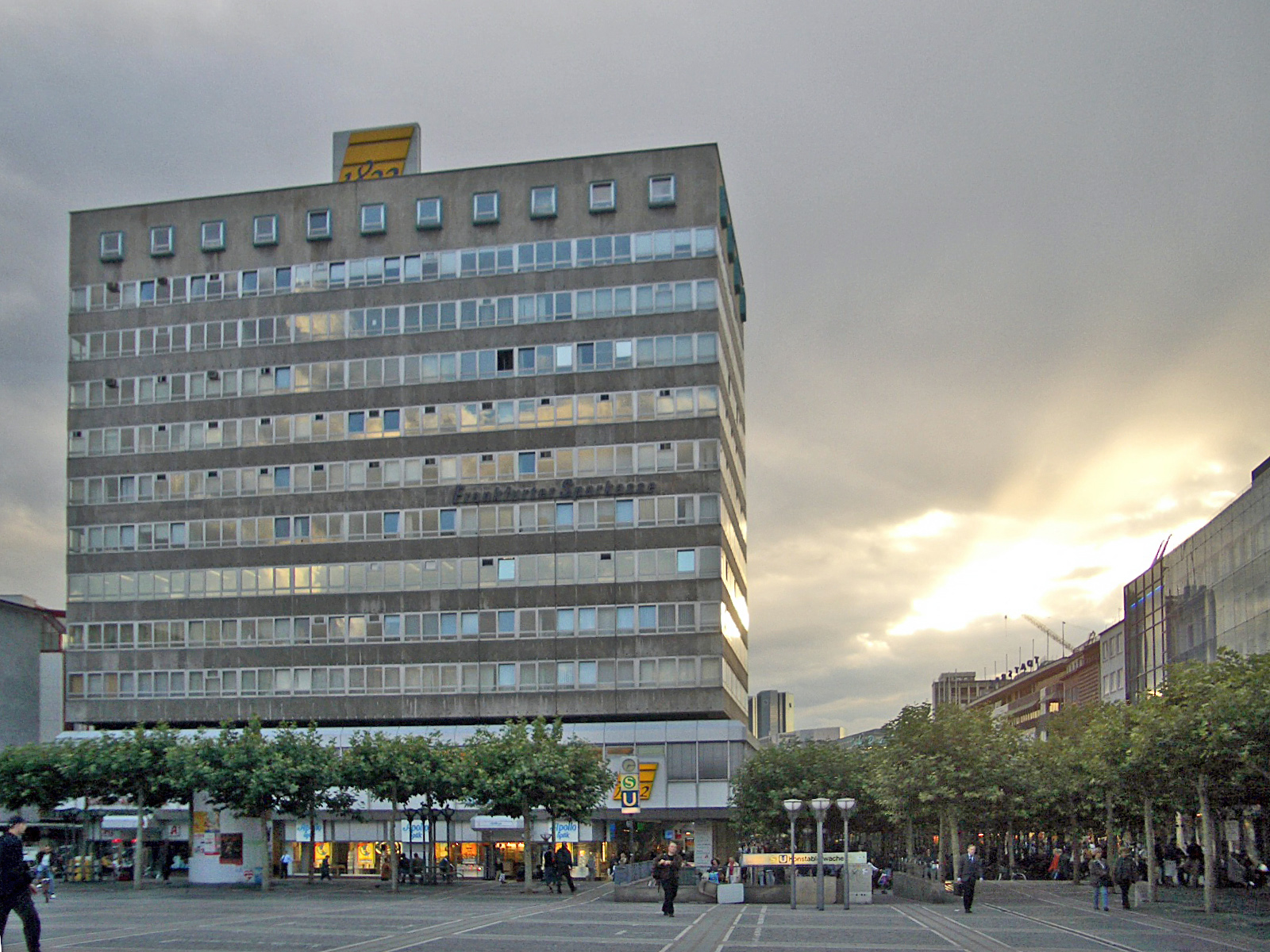 Beehive House (built 1953/54) at Konstablerwache Square in Frankfurt, Zeil street on the right